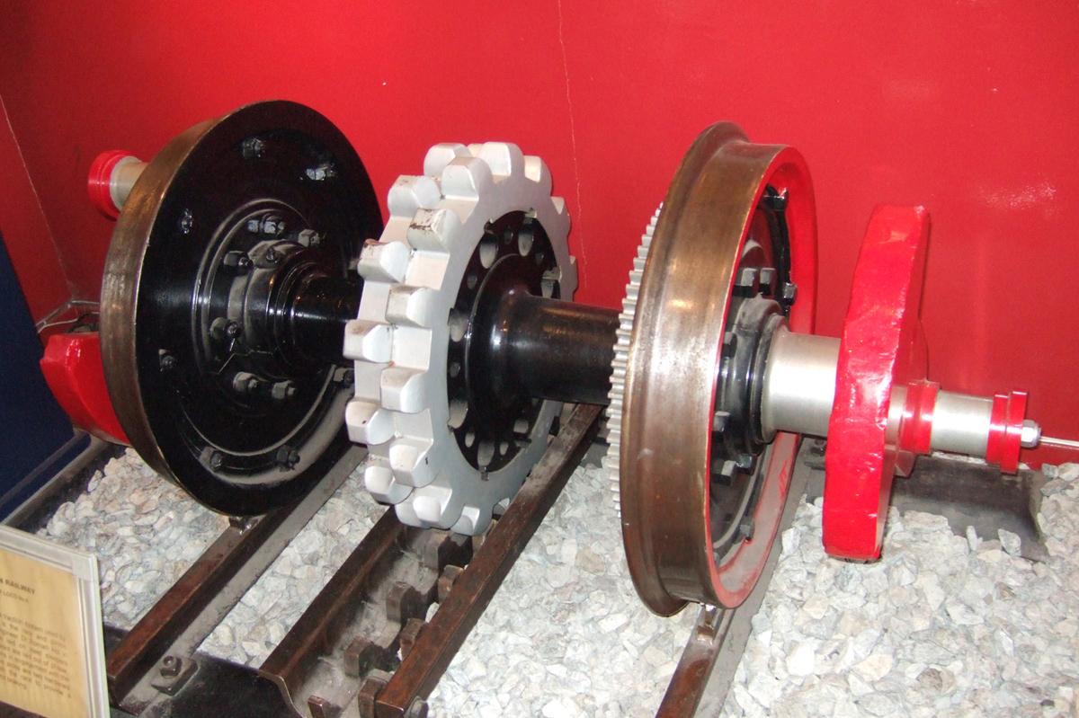 Snowdon Mountain Railway. A typical wheelset on display at Llanberis. This is probably the leading axle, wheels, cranks, and rack wheels off one of the 1923 built engines. 24th July 2005 Photographer - A.M.Hurrell Camera - Fuji FinePix F10 Modified - Trimmed and file size reduced using Adobe Photoshop 5.0LE